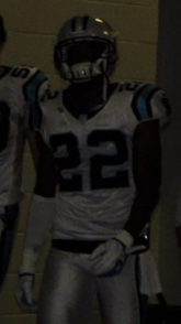 Staff Sgt. Ray Santiago of Fort Benning's Ranger Training Brigade watches the Carolina Panthers as prepare to take the field in the tunnel of the Georgia Dome. The Atlanta Falcons and the Home Depot honored Santiago as their Hometown Hero at the Sept. 30 game against the Carolina Panthers.